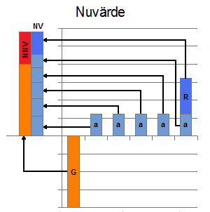 Swedish corparate finance: nuvärde